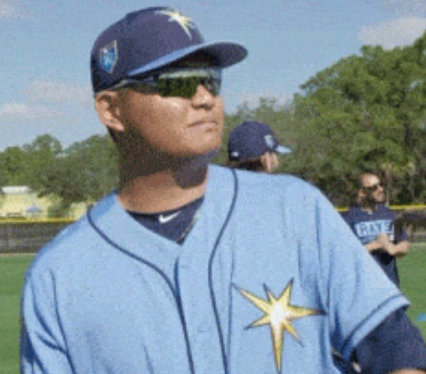 Chih-Wei Hu with Rays in 2018